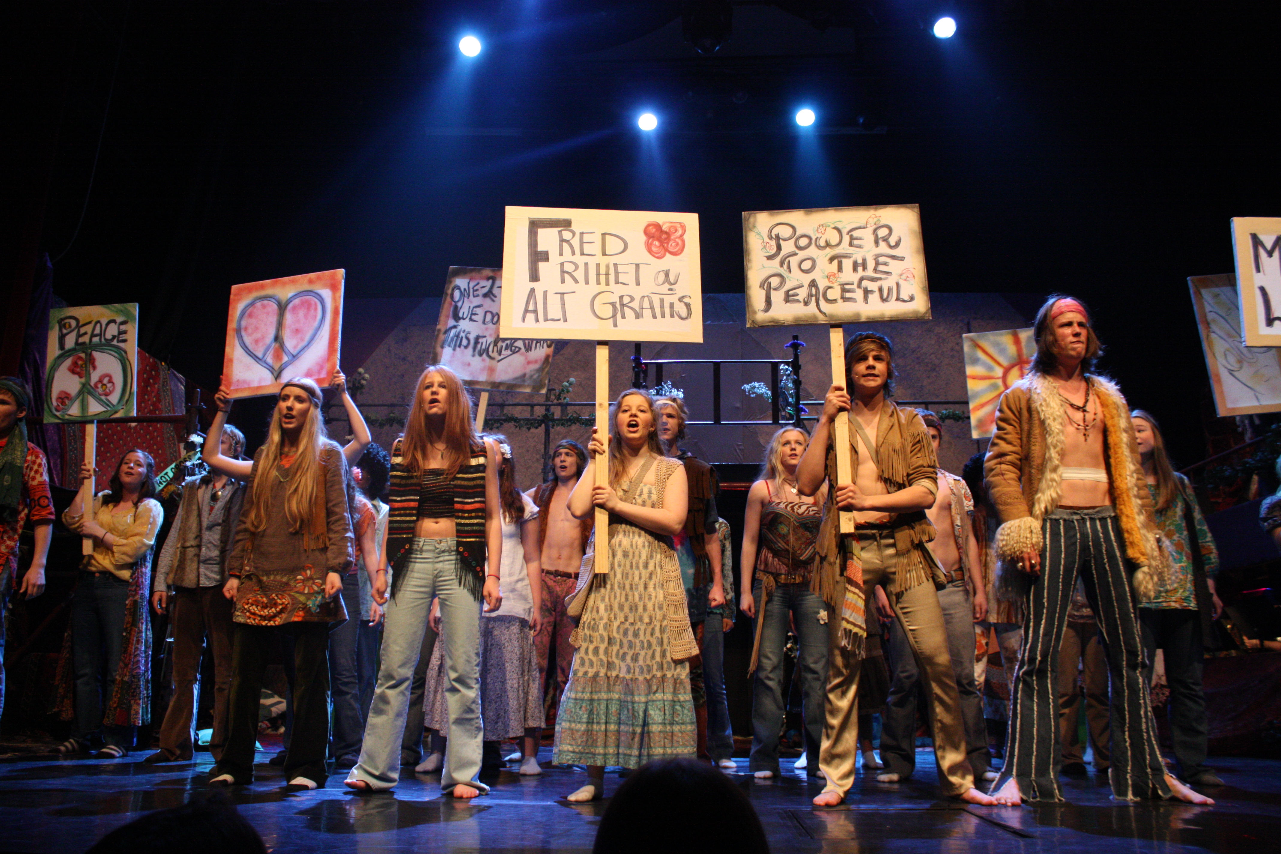 From HAIR the musical by APPLAUS, Moss, Norway